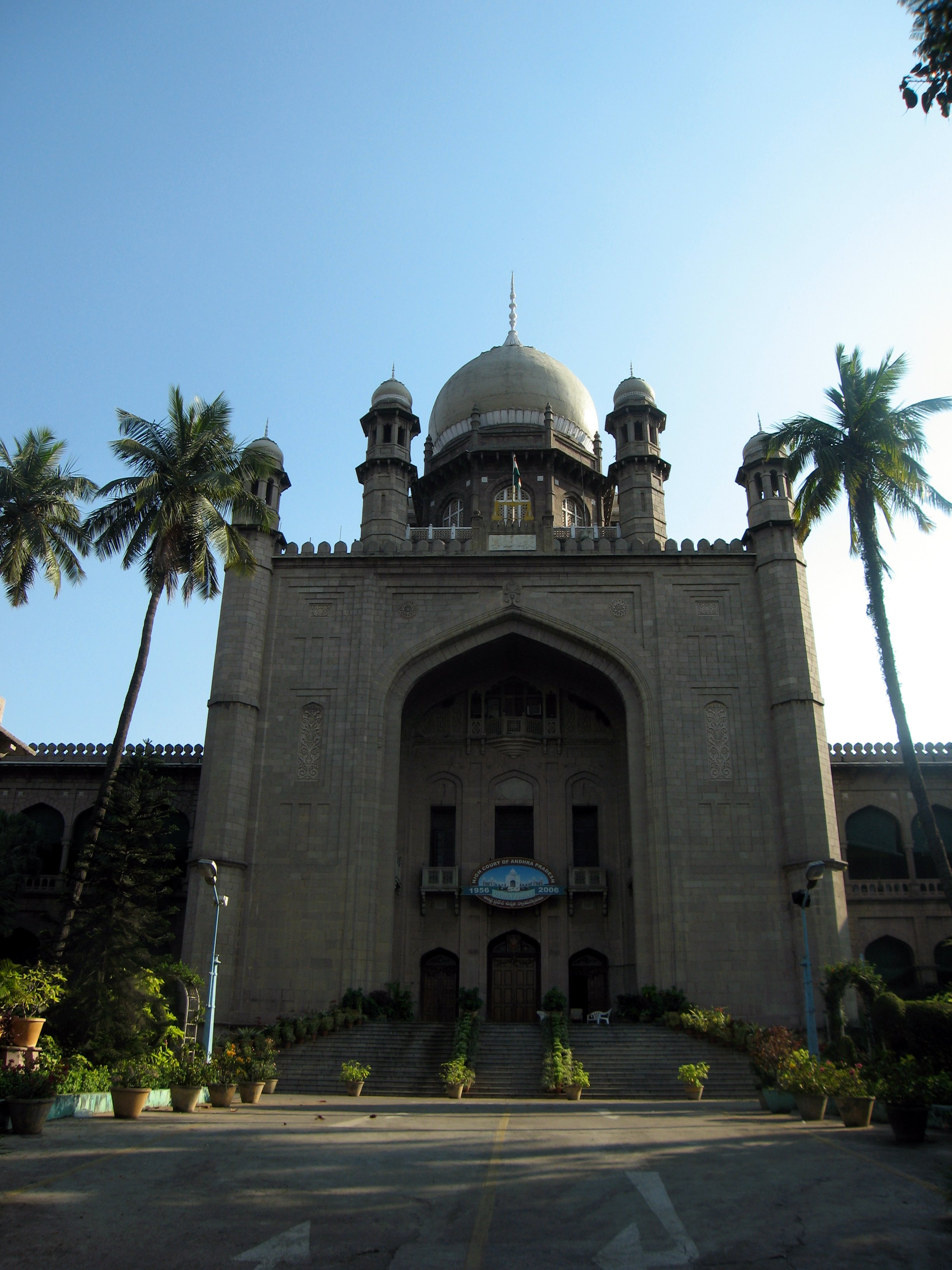 The Ap High Court in Hyderabad.